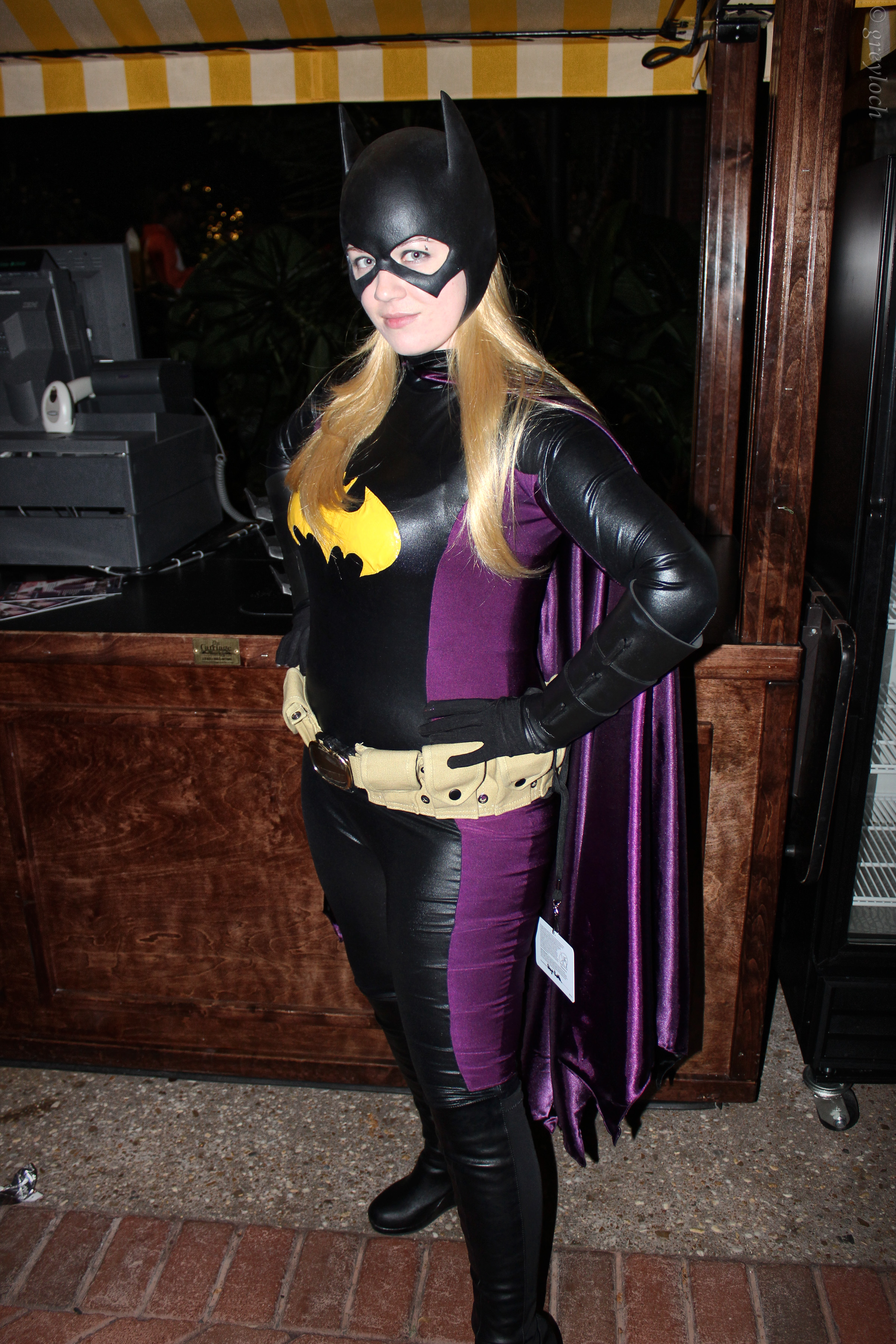 I *miss* the Stephanie Brown Batgirl. Damn you, DC Comics management!!! Damn you!!!!